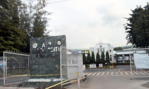 Armed Forces of the Philippines Medical Center also colloquially called as V. Luna Hospital.